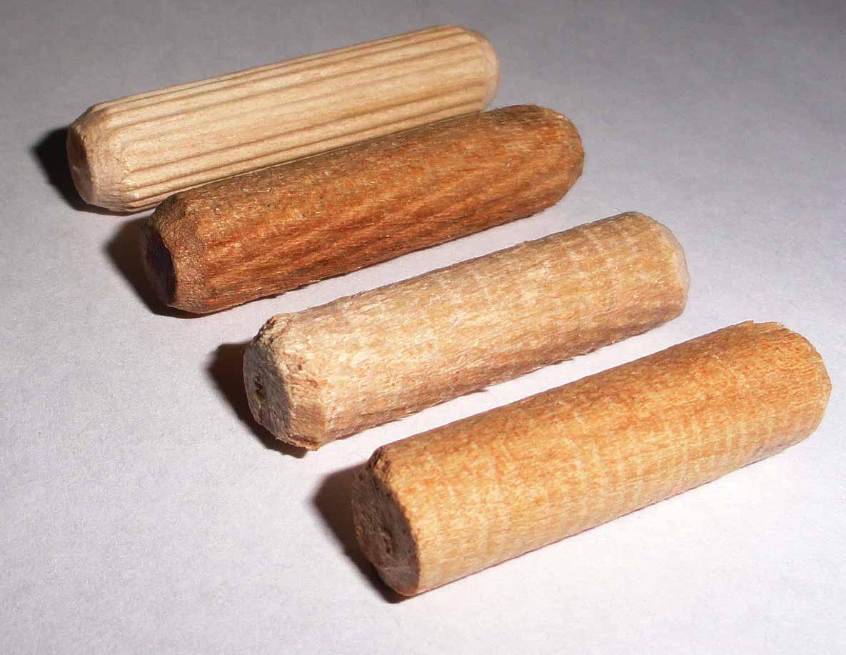 fluting on the wood dowels